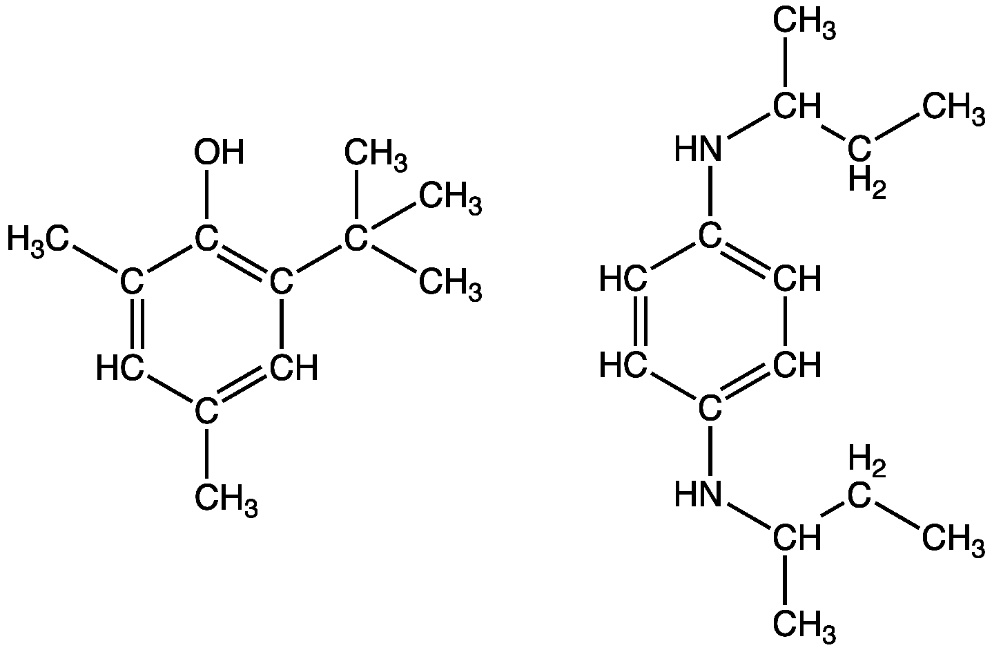 two popular antioxidants used in gasoline (petrol)